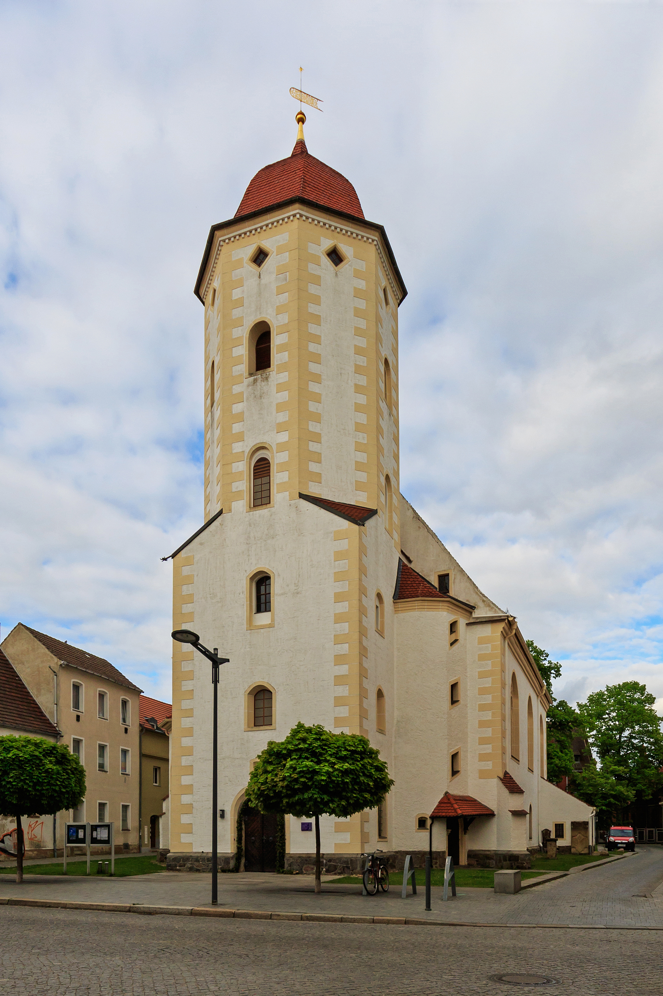 Finsterwalde (Brandenburg, Germany): Trinity Church